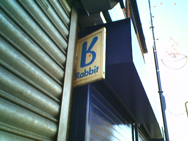 Picture Taken by myself on Penny Meadow, Ashton Under Lyne.